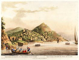 The Harbour at Cacomo by Luigi Mayer